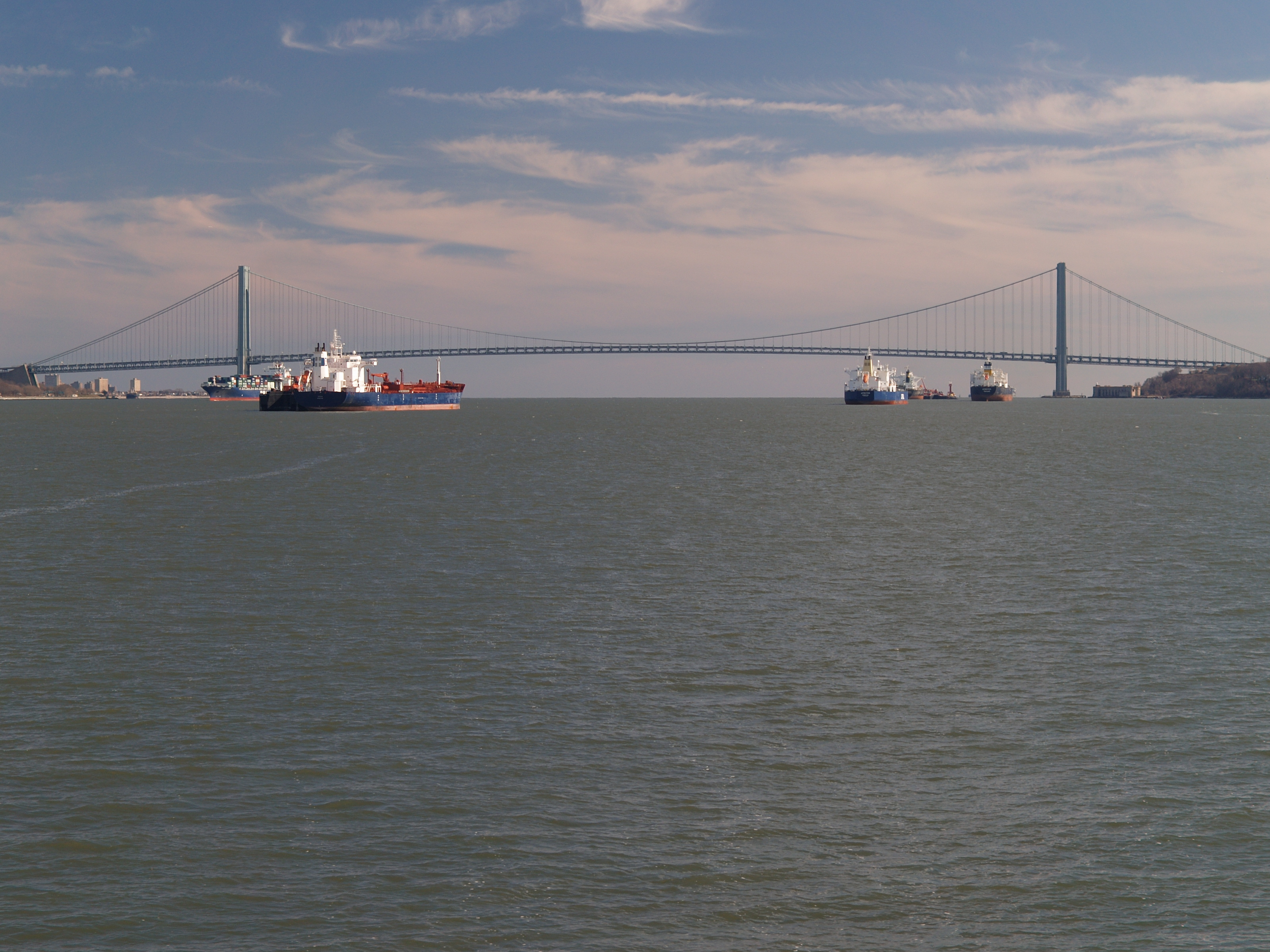 Verrazano-Narrows Bridge, connecting Brooklyn and Staten Island in New York City, seen from the New York Bay.